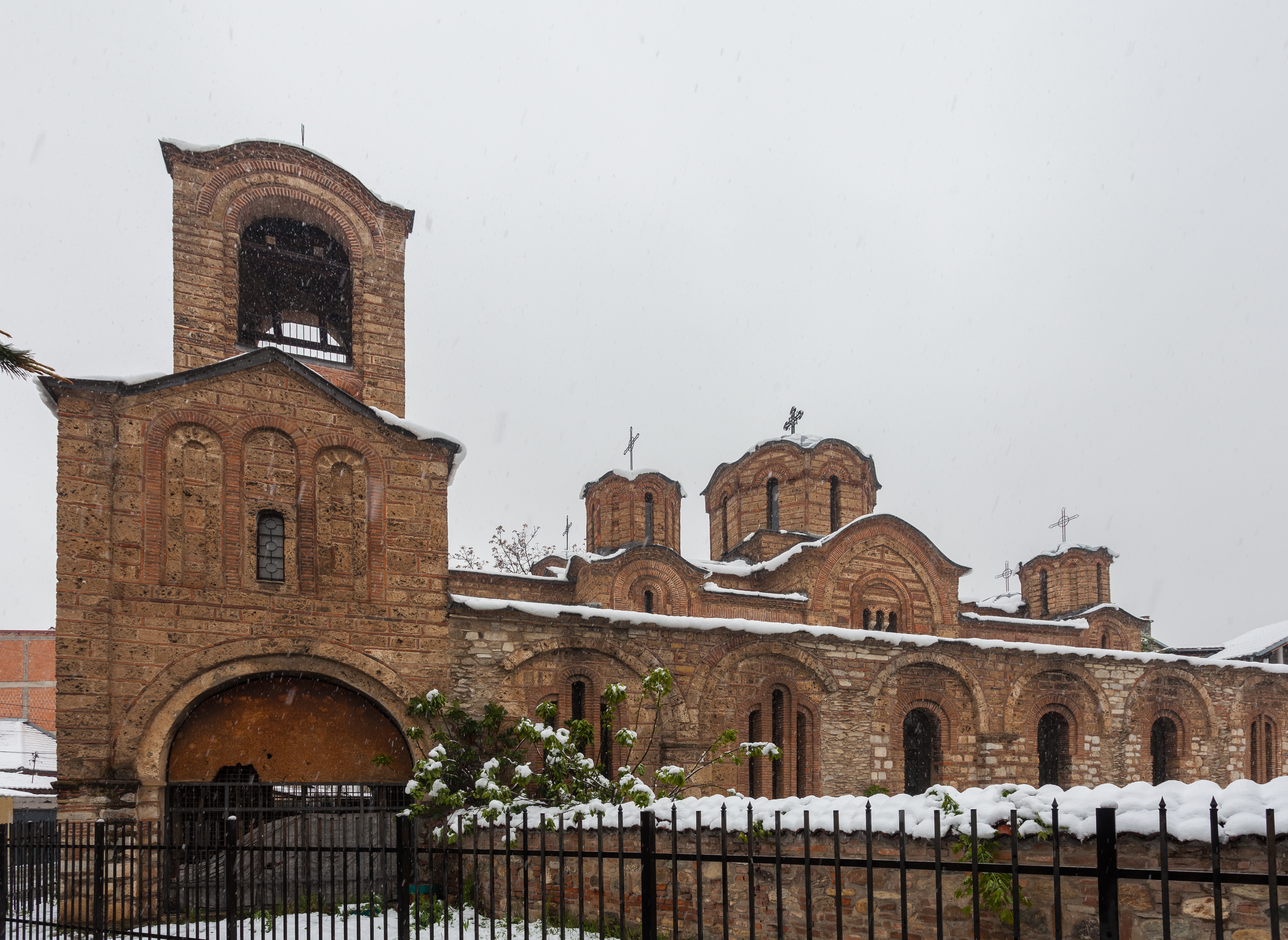 Serbian Orthodox Church of the Holy Mother of God (Bogorodica Ljeviška) in Prizren (14th Century)